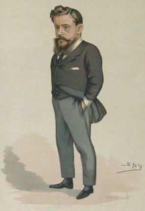 Caricature of Henry Fitzalan-Howard, 15th Duke of Norfolk (1847-1917). Caption read "Our little Duke"